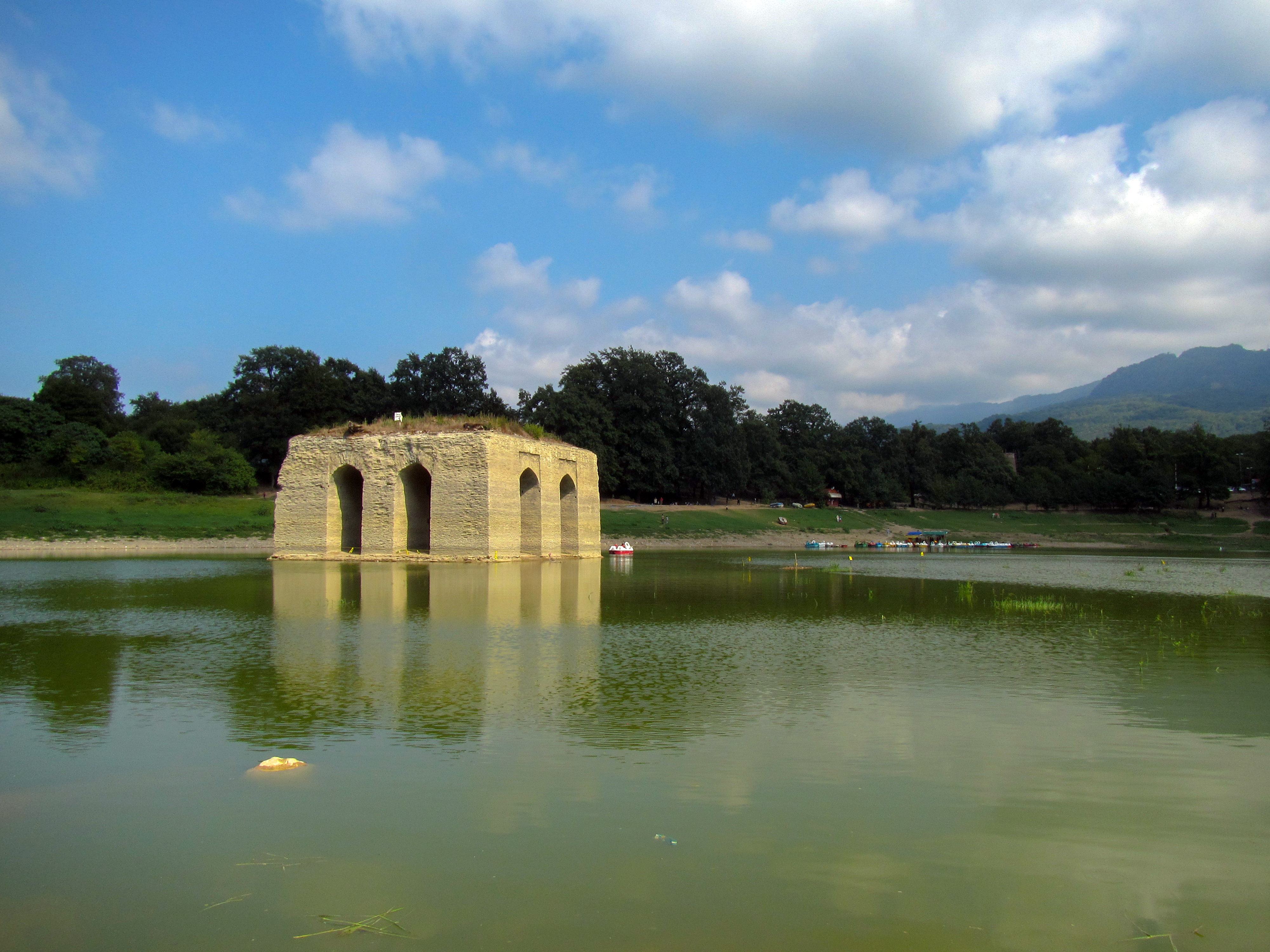 The Abbas Abad Complex (Persian: مجموعه عباس آباد Majmoo'e Abbas Abad or Bāghe Abbas Abad or Abbas Abad Garden and Abbas Abad Lake) is an old historical Persian Garden in Behshahr, Iran. Abbas Abad Complex global registration in World Heritage Site with code (i)(ii)(iii)(iv)(vi) by UNESCO.